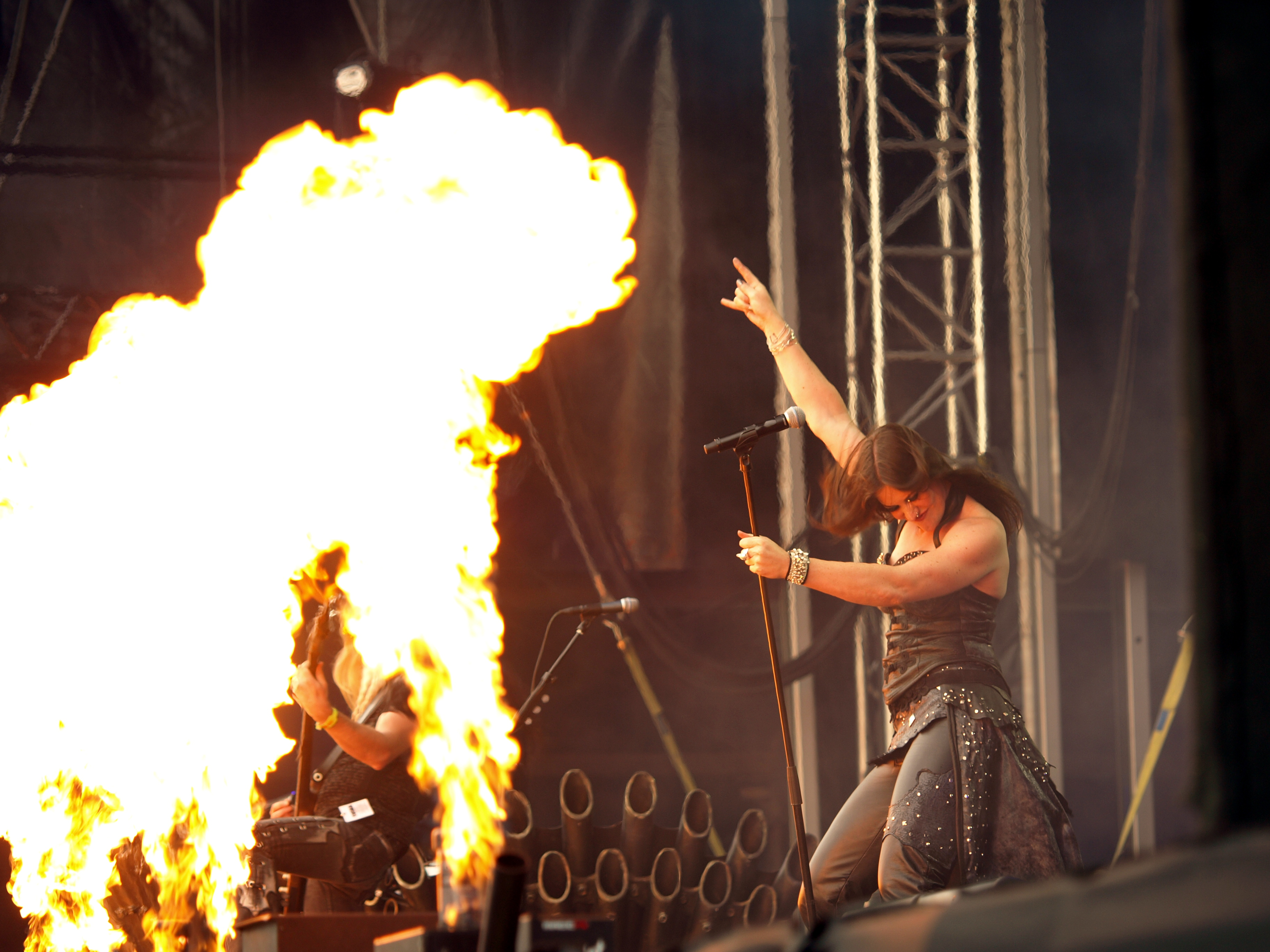 Finnish band Nightwish at Tuska Open Air 2013